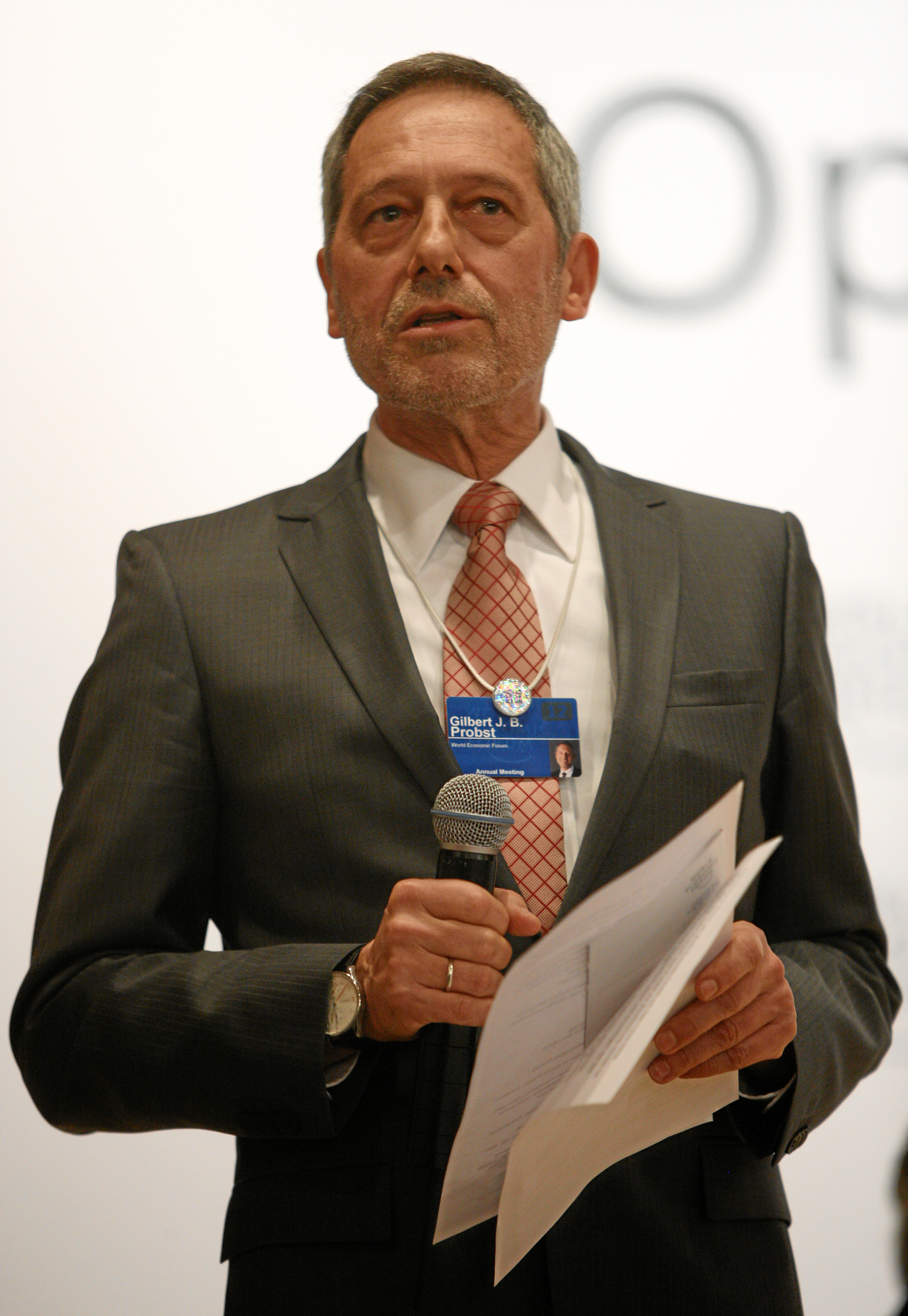 DAVOS/SWITZERLAND, 26JAN12 - Gilbert J. B. Probst Managing Director and Dean, Leadership Office and Academic Affairs, World Economic Forum captured during the session 'Responsible Leadership in Times of Crisis' at the Annual Meeting 2012 of the World Economic Forum at the Swiss Alpine High School (SAMD) in Davos, Switzerland, January 26, 2012.. . Copyright by World Economic Forum. by Remy Steinegger